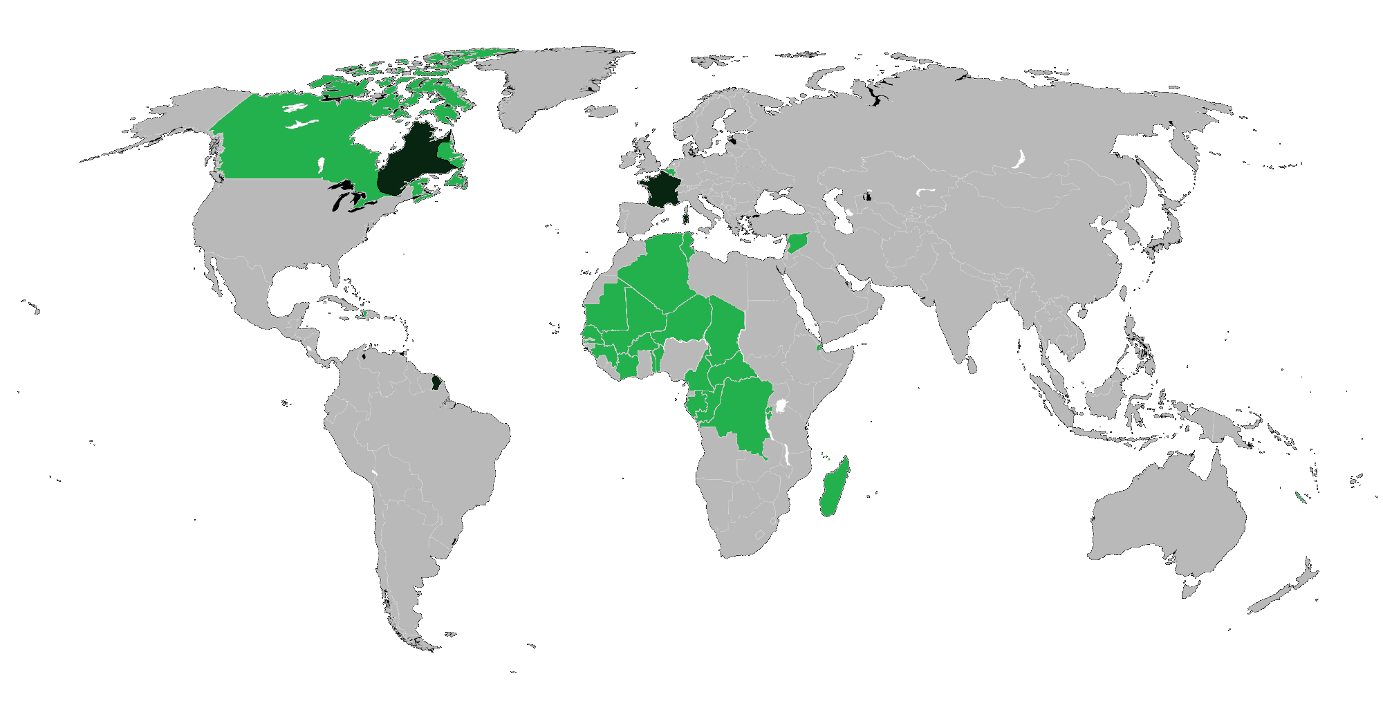 French Language